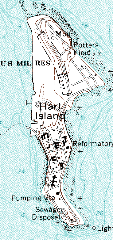 Crop from US Geological Suvey, Flushing NY 7.5 minute topo series, 1966 edition. Image cropped to show only Hart Island, Bronx.